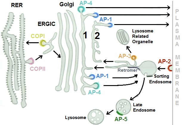 Transport in the endomembrane system